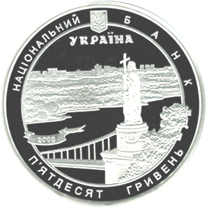 Coin of Ukraine